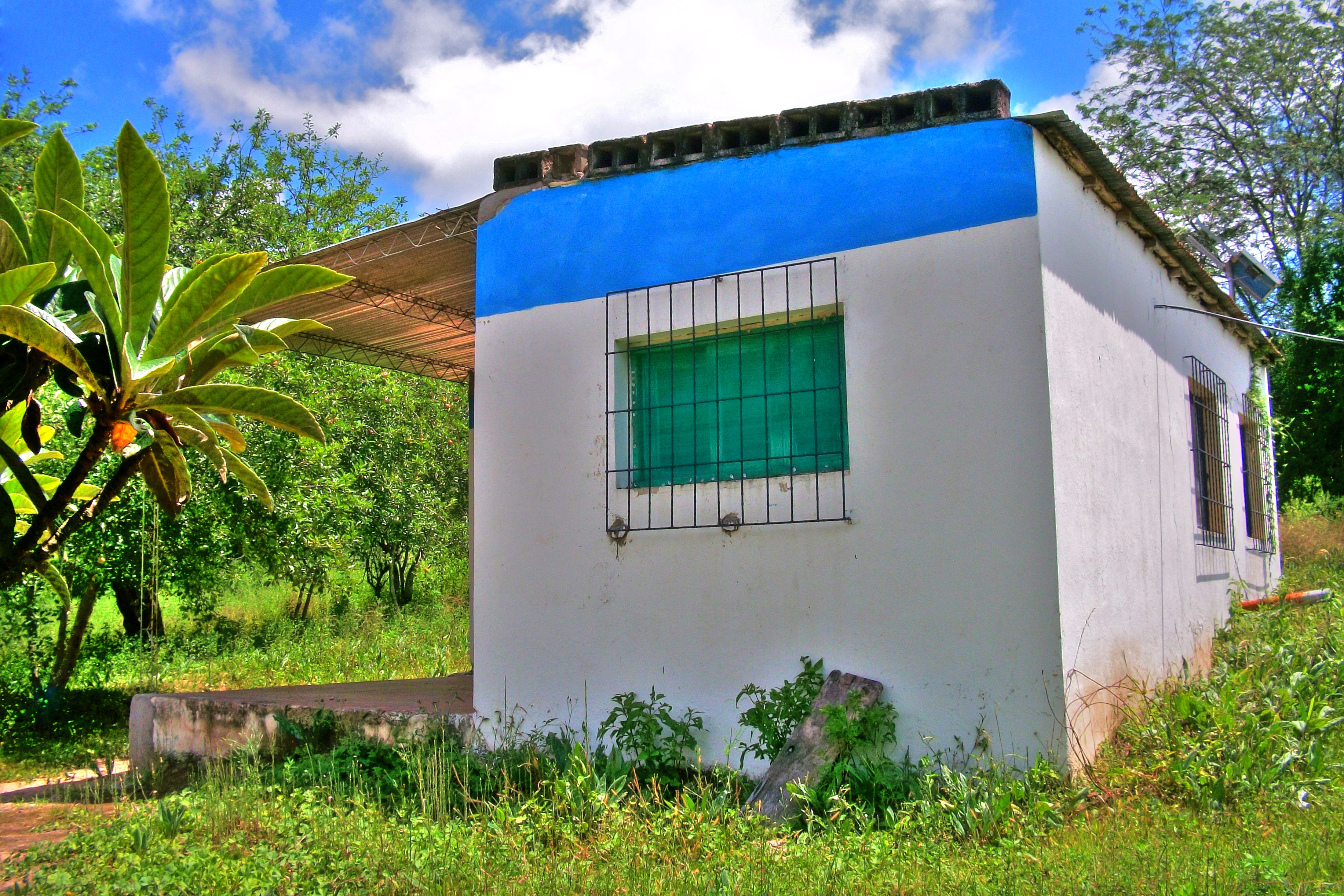 The little school of the almost inhabited small hamlet El potrerillo